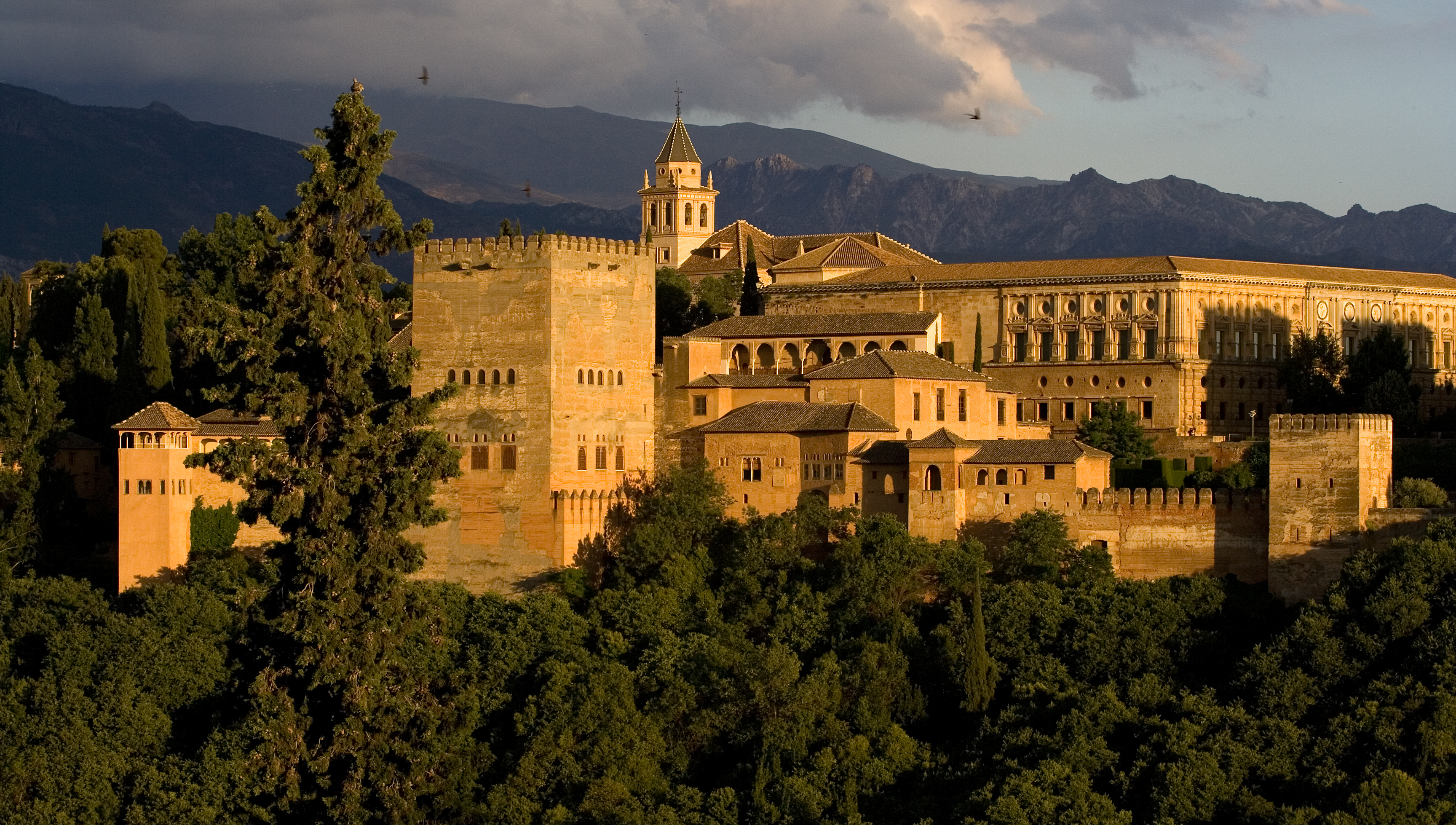 The big square tower in the foreground and a bit to the left, along with many of the other buildings and towers in the left and centre foreground, are part of the Nasrid (Muslim) palaces, and contain some spectacular rooms and spaces. The church spire in the back centre is a Christian church built on the site after the Catholic reconquest. The large, square, decidedly non-Muslim building that dominates the right hand side is the palace of Charles V (the grandson of Ferdinand and Isabella who captured Granada, eliminating the last Muslim kingdom in Spain), and houses some excellent museums. And that's only a quarter to a third of the entire Alhambra complex! Ciao!